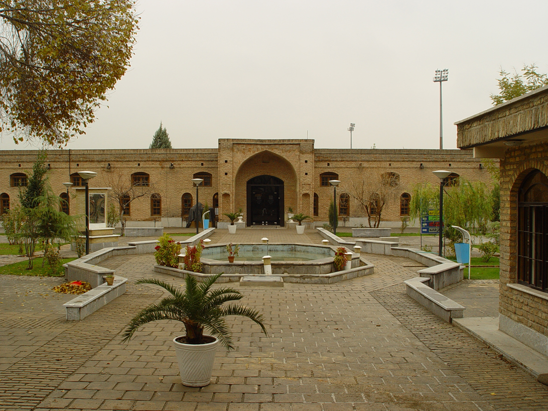 The Iranian National Museum of Medical Sciences History; Tehran; Iran (Founder: Dr. Maziar Ashrafian Bonab)